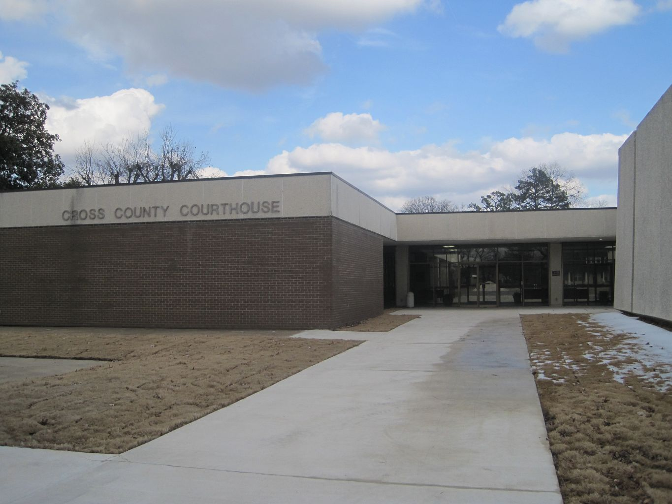 Cross County Courthouse (Wynne, Arkansas)